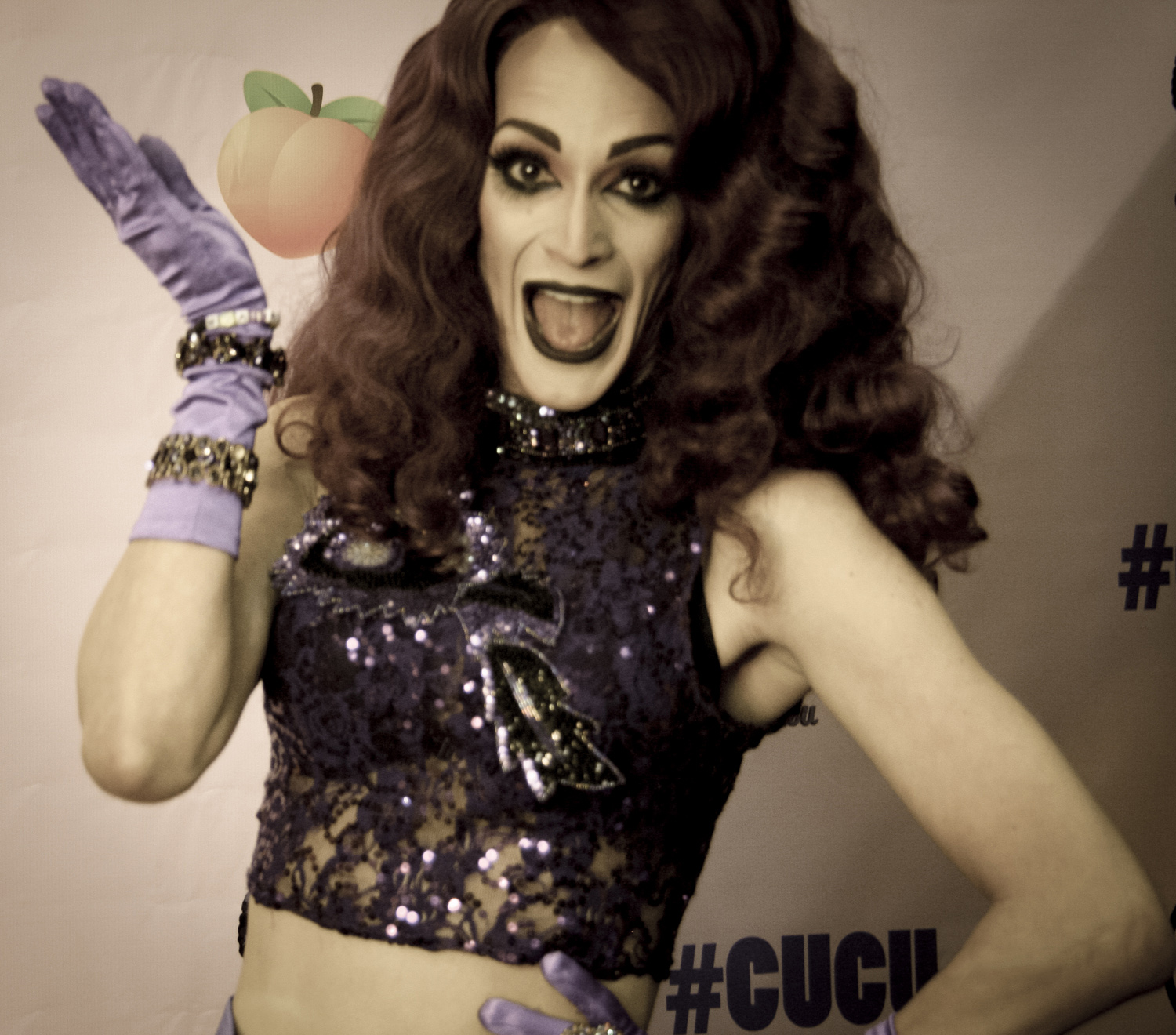 Cynthia Lee Fontaine at Rupauls Drag Con 2017